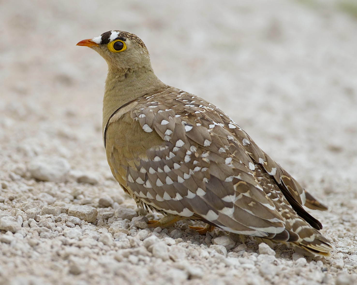 A male Double-banded Sandgrouse in Etosha